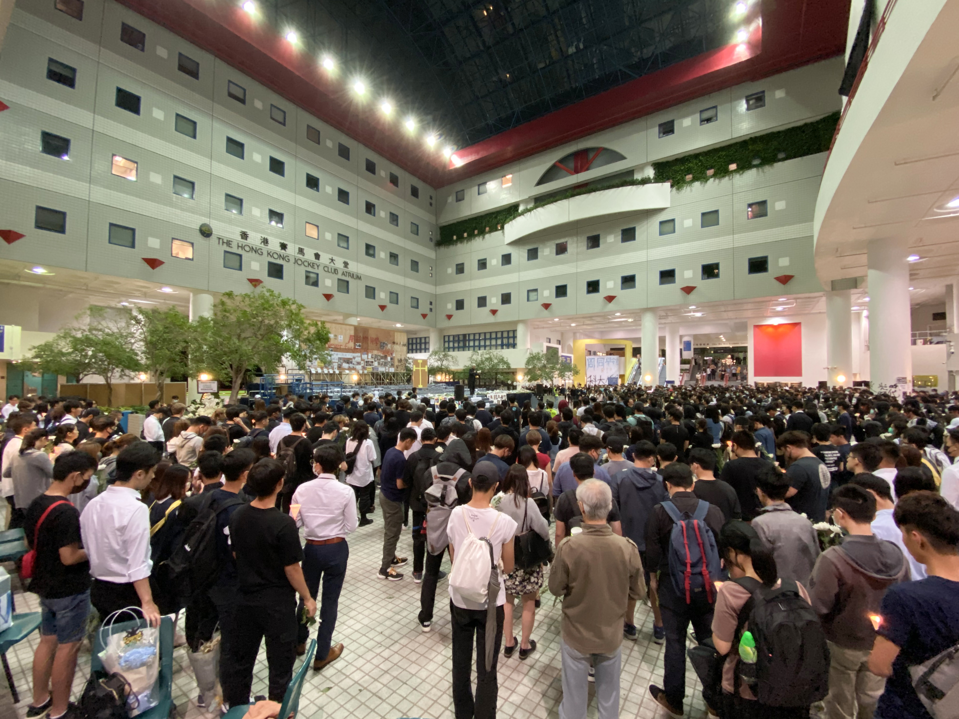 Memorial Student Depth in HKUST Campus